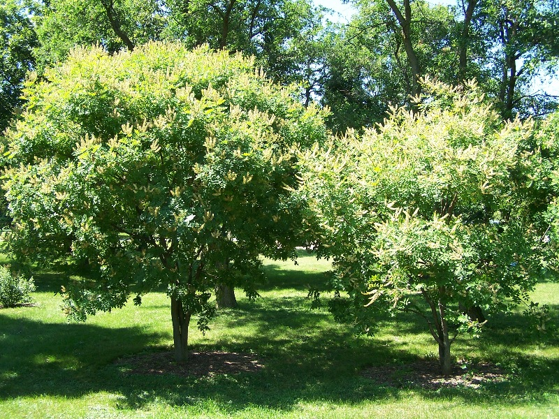 Amur maackia, Maackia amurensis specimens at Morton Arboretum, Lisle, Illinois. Acc. 147-71-5